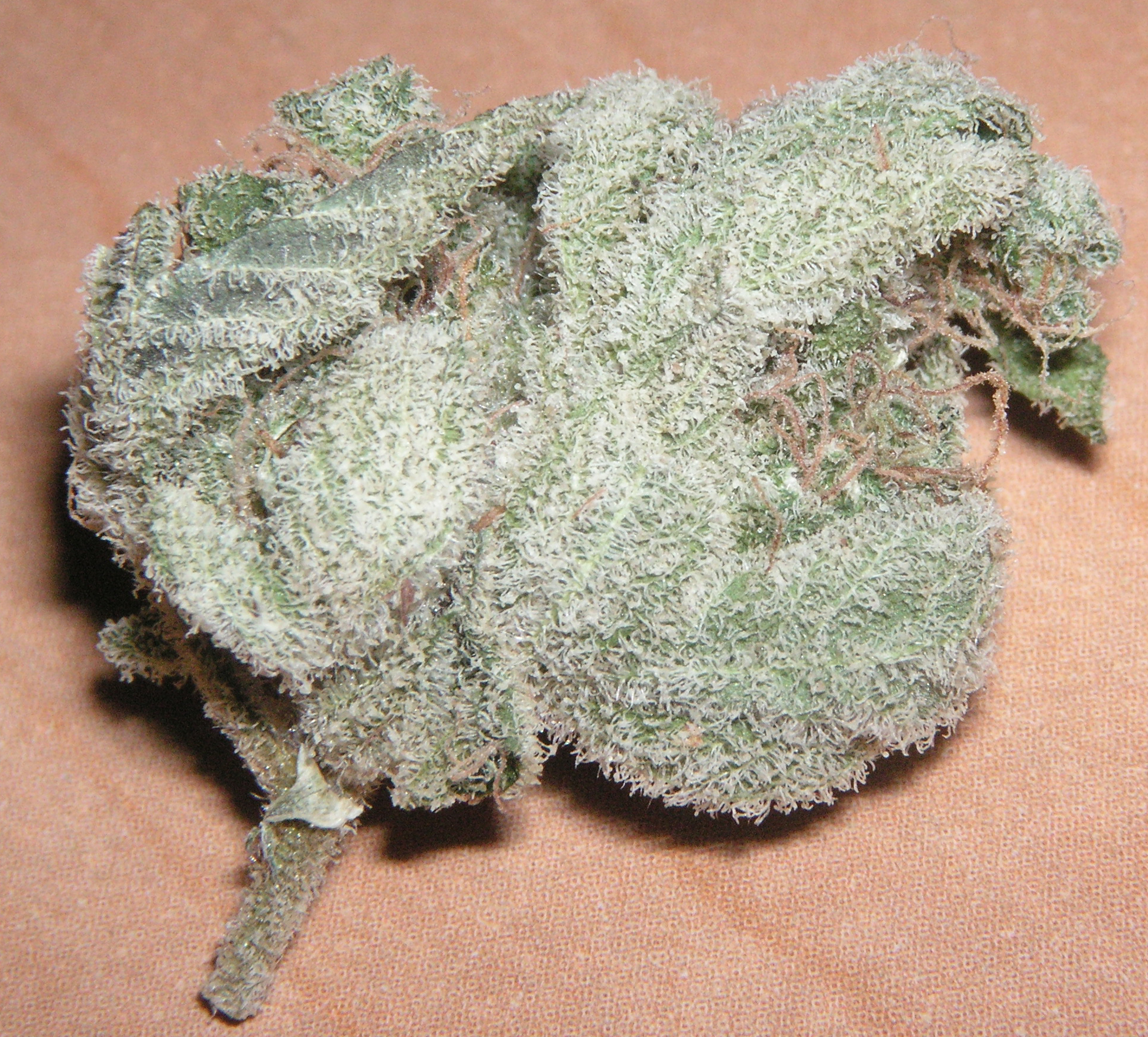 White Widow